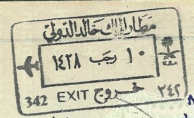 King Khalid Airport in Riyadh's airport exit stamp stamped on 10 Rajab 1428 AH (25 July 2007), yet, it looks the same as the contemporary ones.